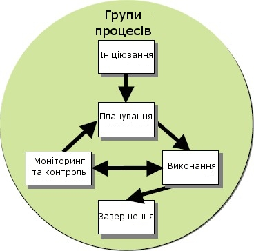 Project development stages